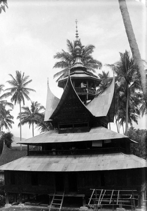 Mosque near Padangpanjang